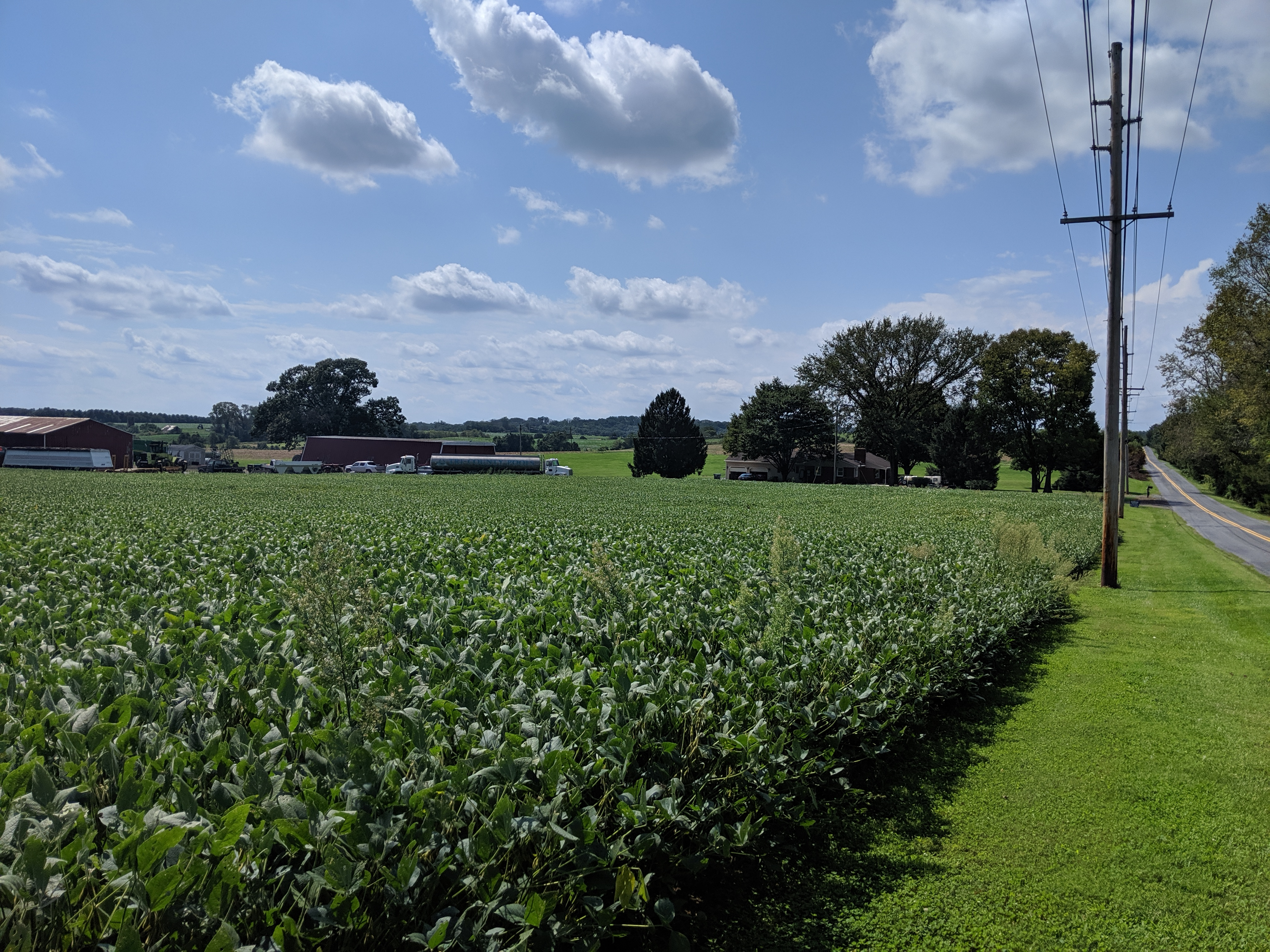 View of a farm in Beallsville, Maryland. The farm is located within the Montgomery County, Maryland Agricultural Reserve.)